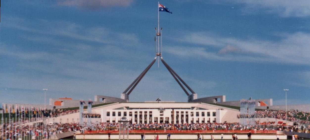 Crowds attend the official opening of the new Parliament House Building in 1988.